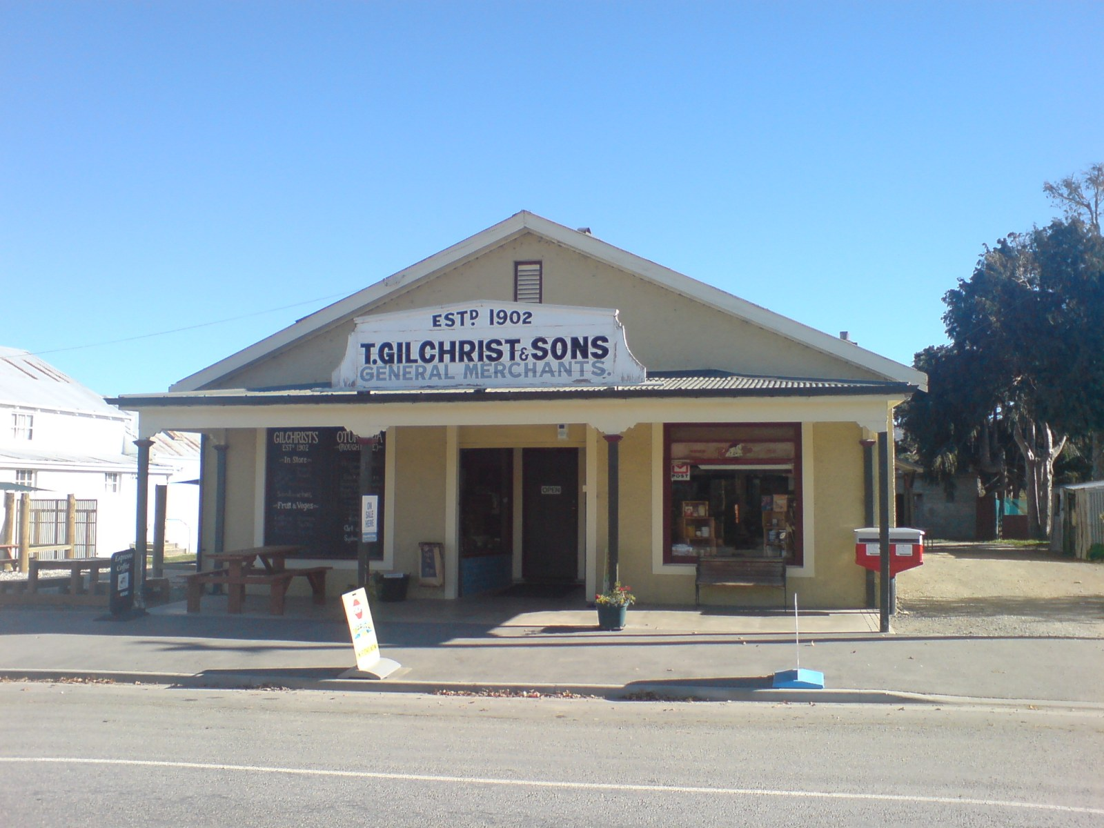 Oturehua - NZ's oldest still-operating store, T. Gilchrist & Sons - established 1902, and since 1987 operated by a community trust (but still working as a normal grocery). Now seeing more business partly due to the Central Otago Rail Trail.